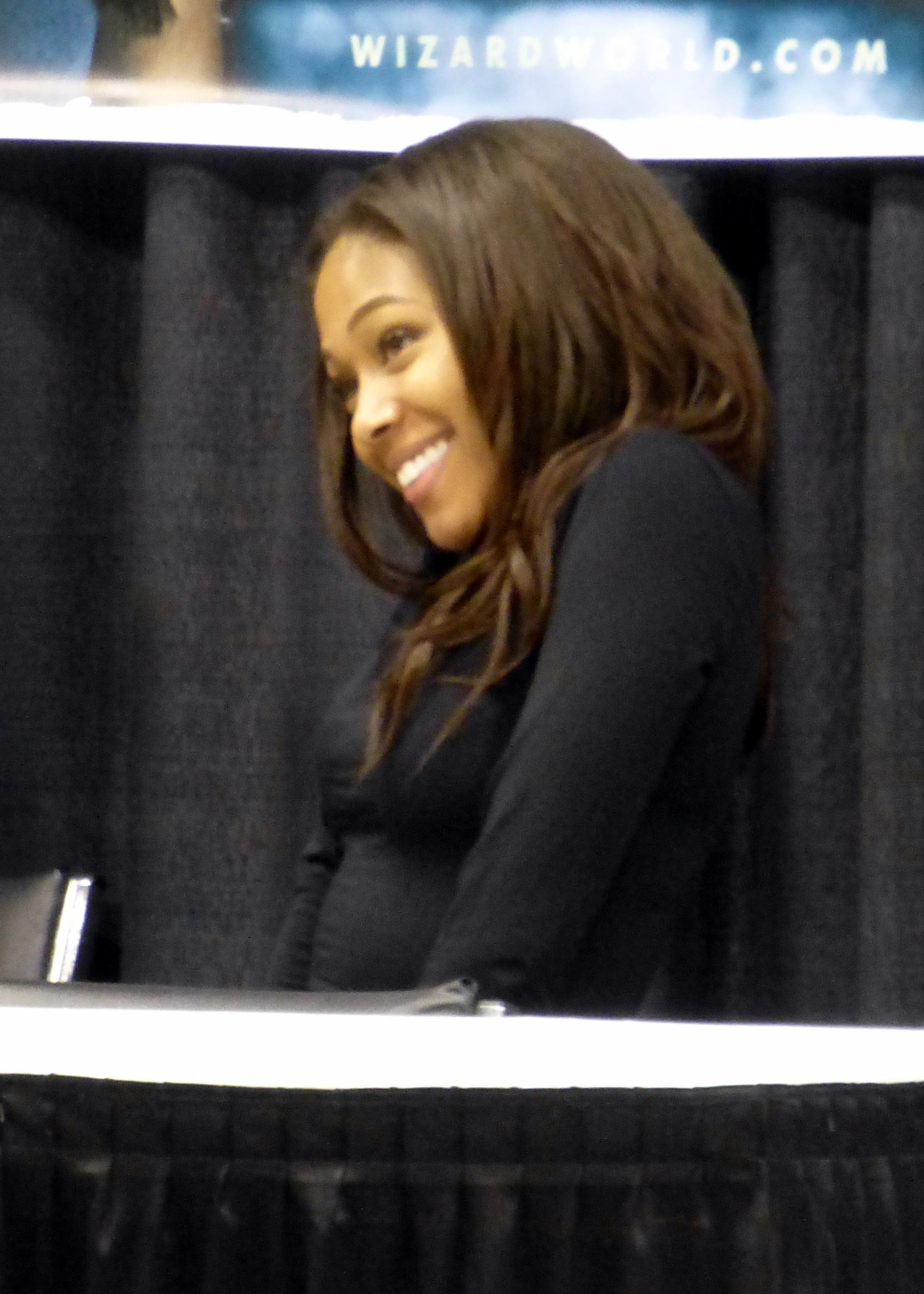 Guest at the 2014 Wizard World Chicago.